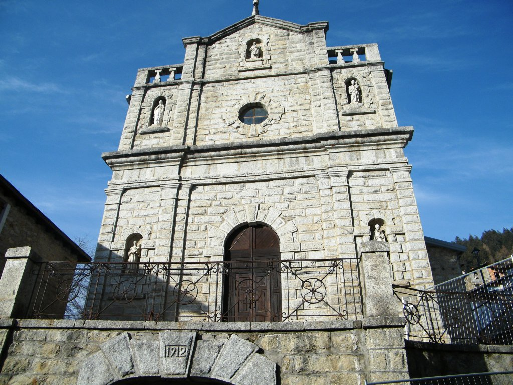 Church of St Anthony of Padua. Saviore dell'Adamello, Val Camonica.